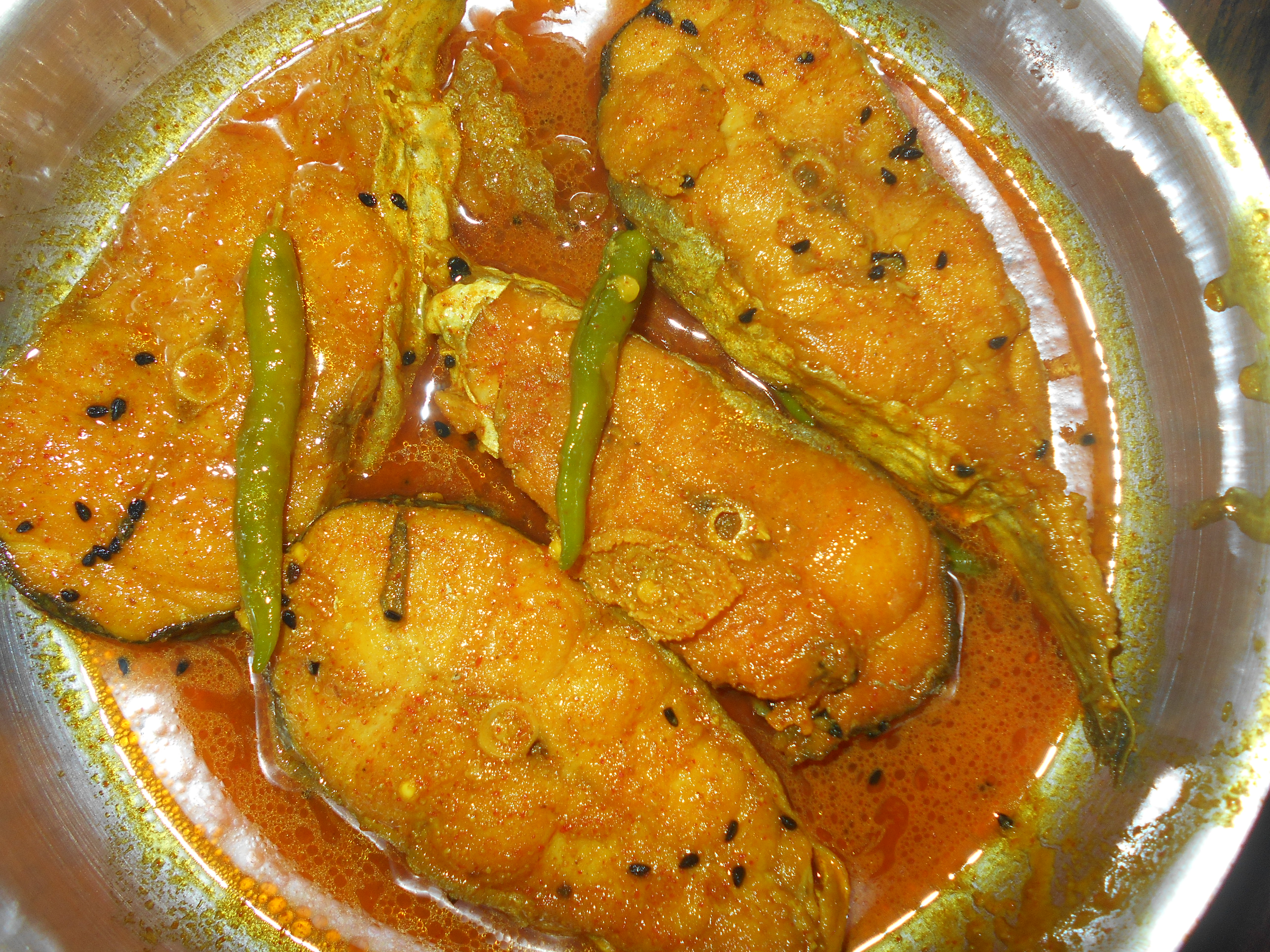 Boyal Macher (helicopter catfish) jhol